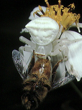 female Thomisus okinawensis from Okinawa.